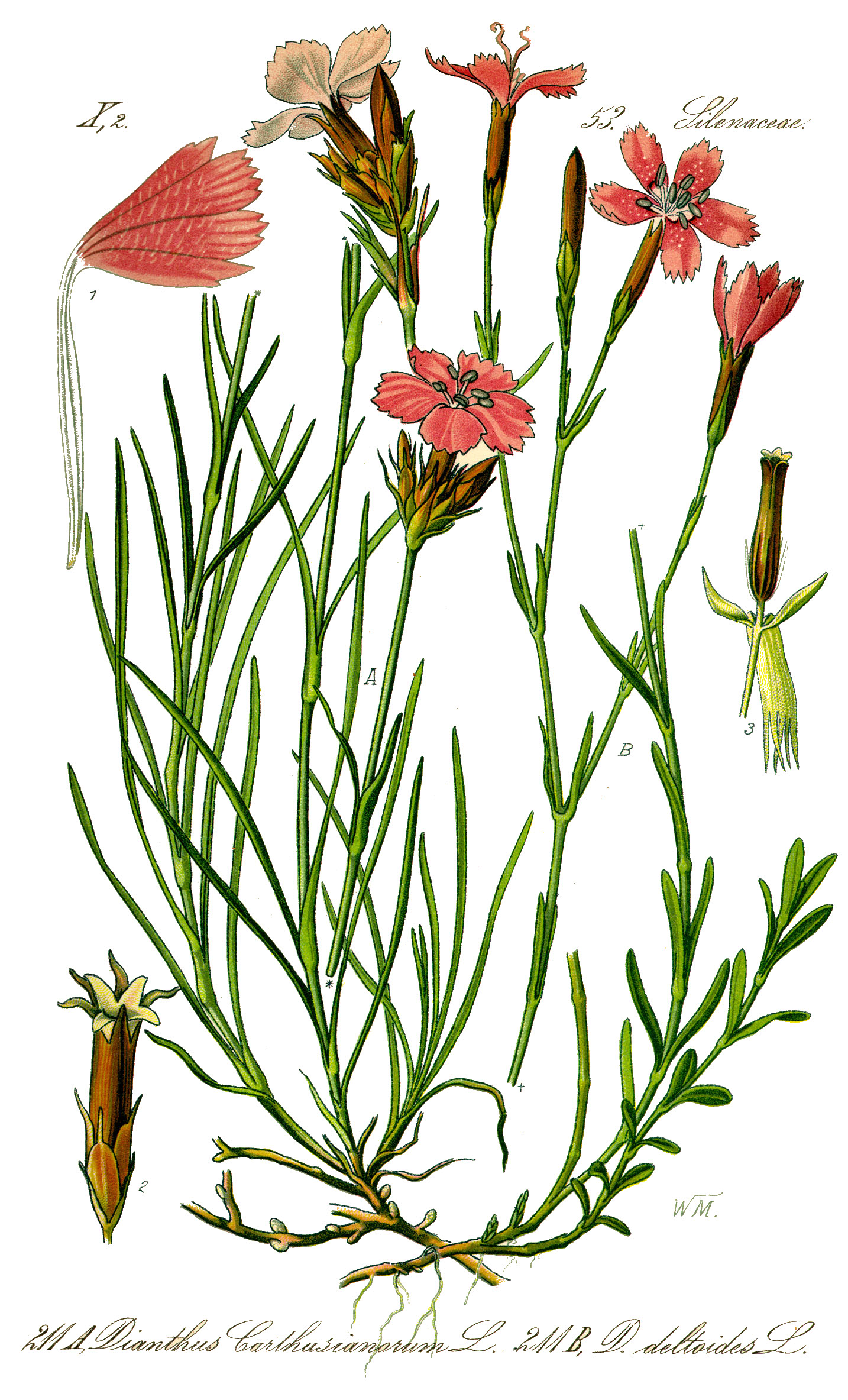 Name Dianthus carthusianorum (left) Dianthus deltoides (right) Family Caryophyllaceae